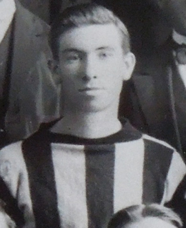 Photograph of Vin Batchelor in 1924